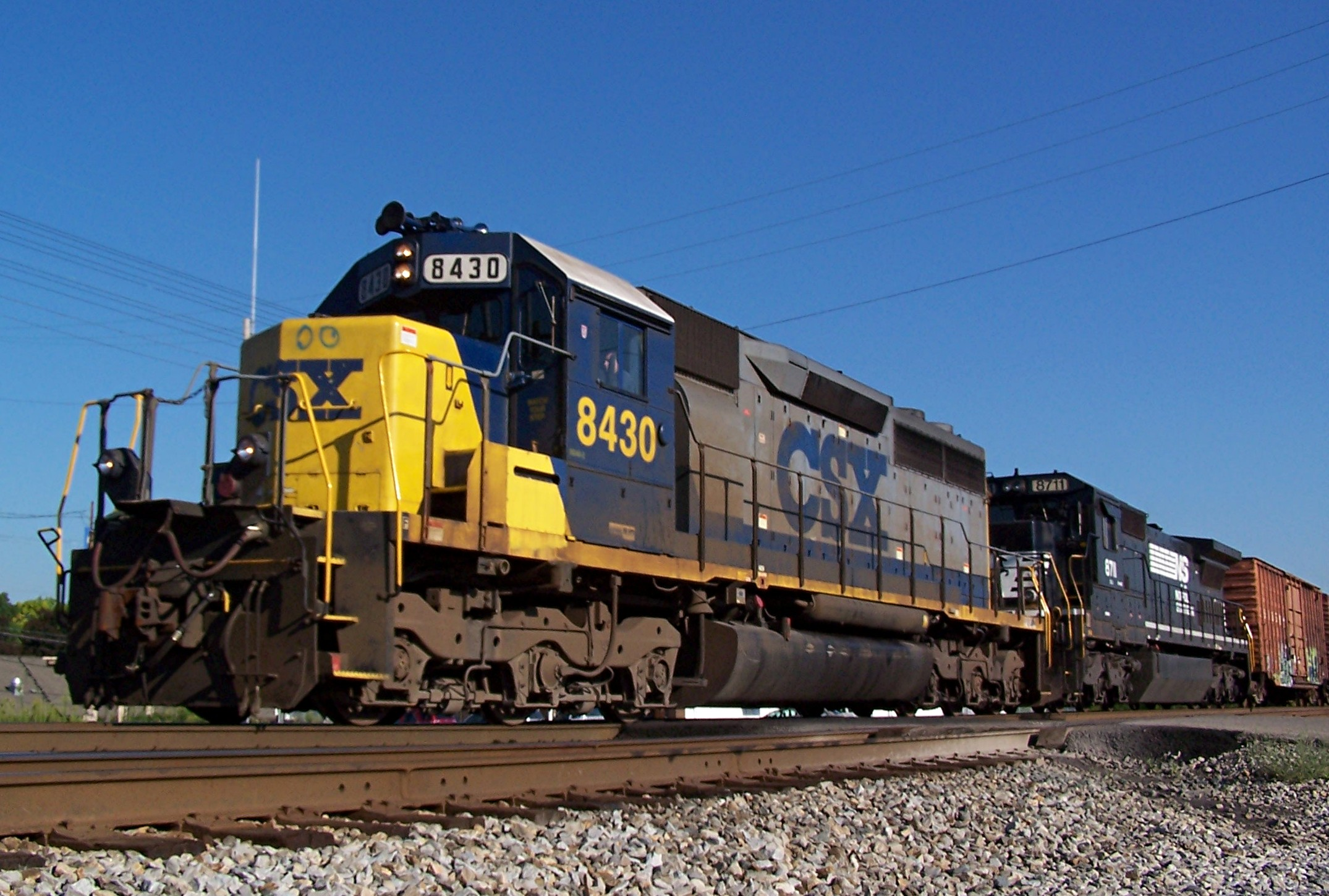 CSX 8430 (a SD40-2) followed by NS 8711 (a Dash 8-40C) approaches Cooke Road in Columbus, OH running south on NS tracks.